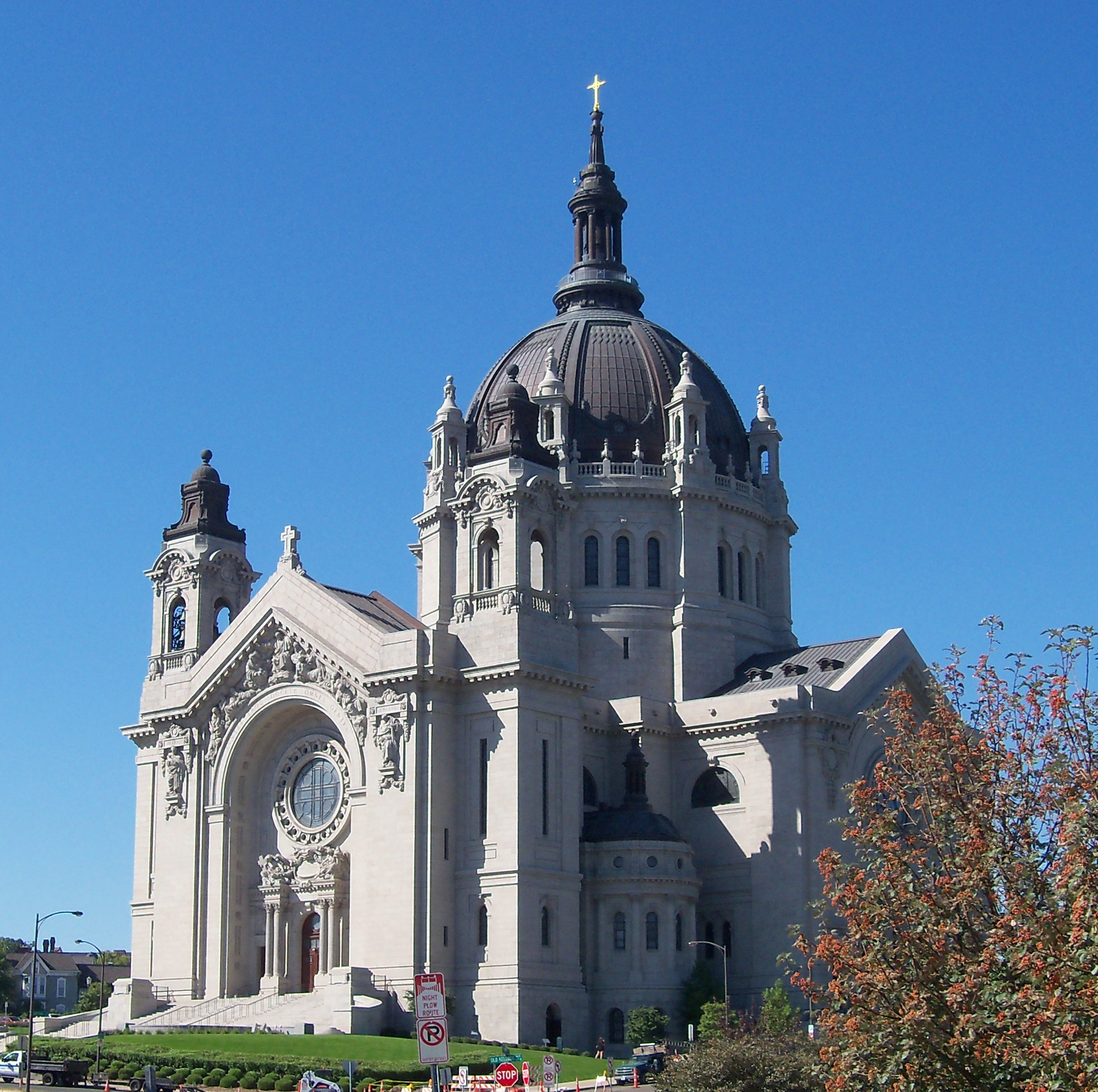 Cathedral of Saint Paul in St. Paul, Minnesota, USA.